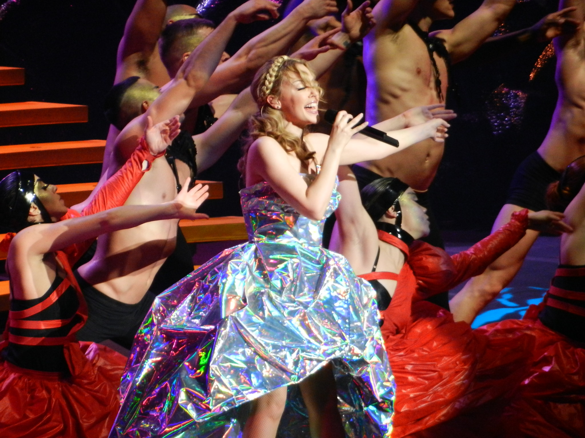 Kylie Minogue, Live Bell Center, Aphrodite Live Tour, Nikon S9100, Montreal, 28 April 2011 (139)